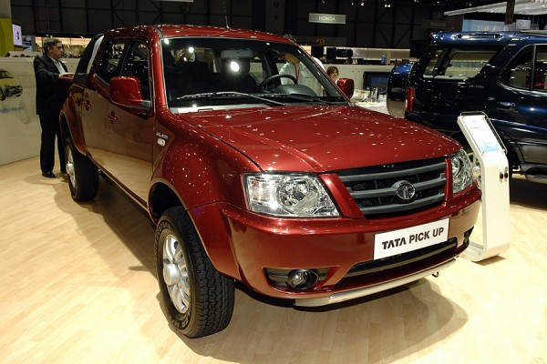 Tata Pick-Up (also known as Tata Xenon)